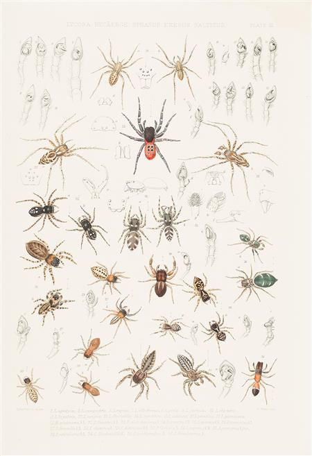 John Blackwall, F.L.S., A History of the Spiders of Great Britain and Ireland. London: Published for the Ray Society by Robert Hardwicke 1861-1864. Plate